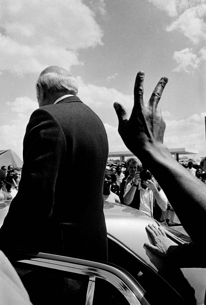 President F W de Klerk campaigns in Soweto, 1994. Part of the collection from Paul Weinberg that makes up the photographic book Travelling Light and was also part of the Then and Now exhibition at Duke University.